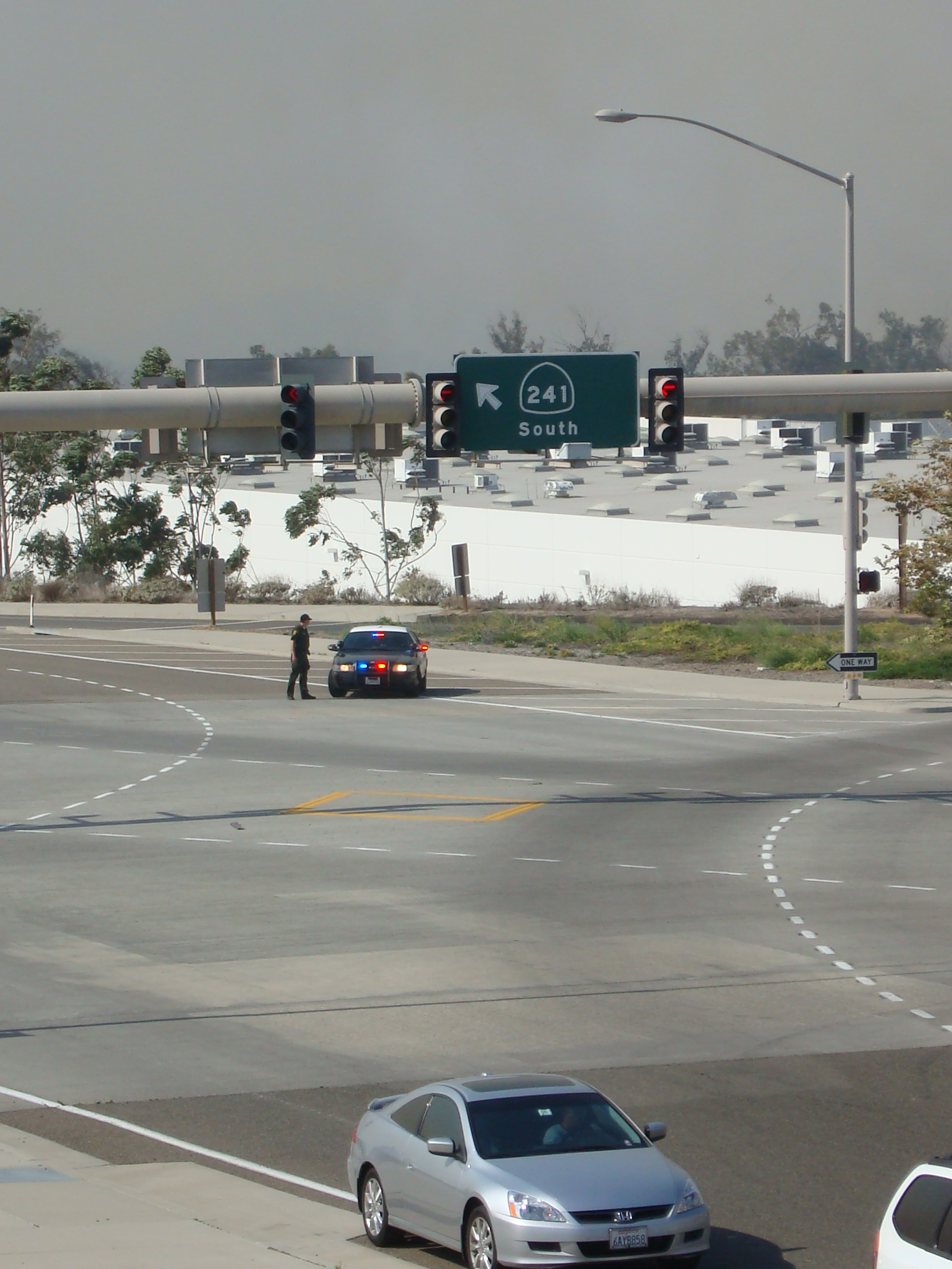 California Highway 241 closed due to the fires